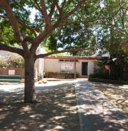 בית ספר גן שמואל